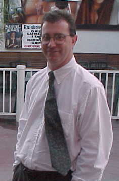 Australian journalist Tim Blair at Hustler Jail Babes Party (May 27, 1999)